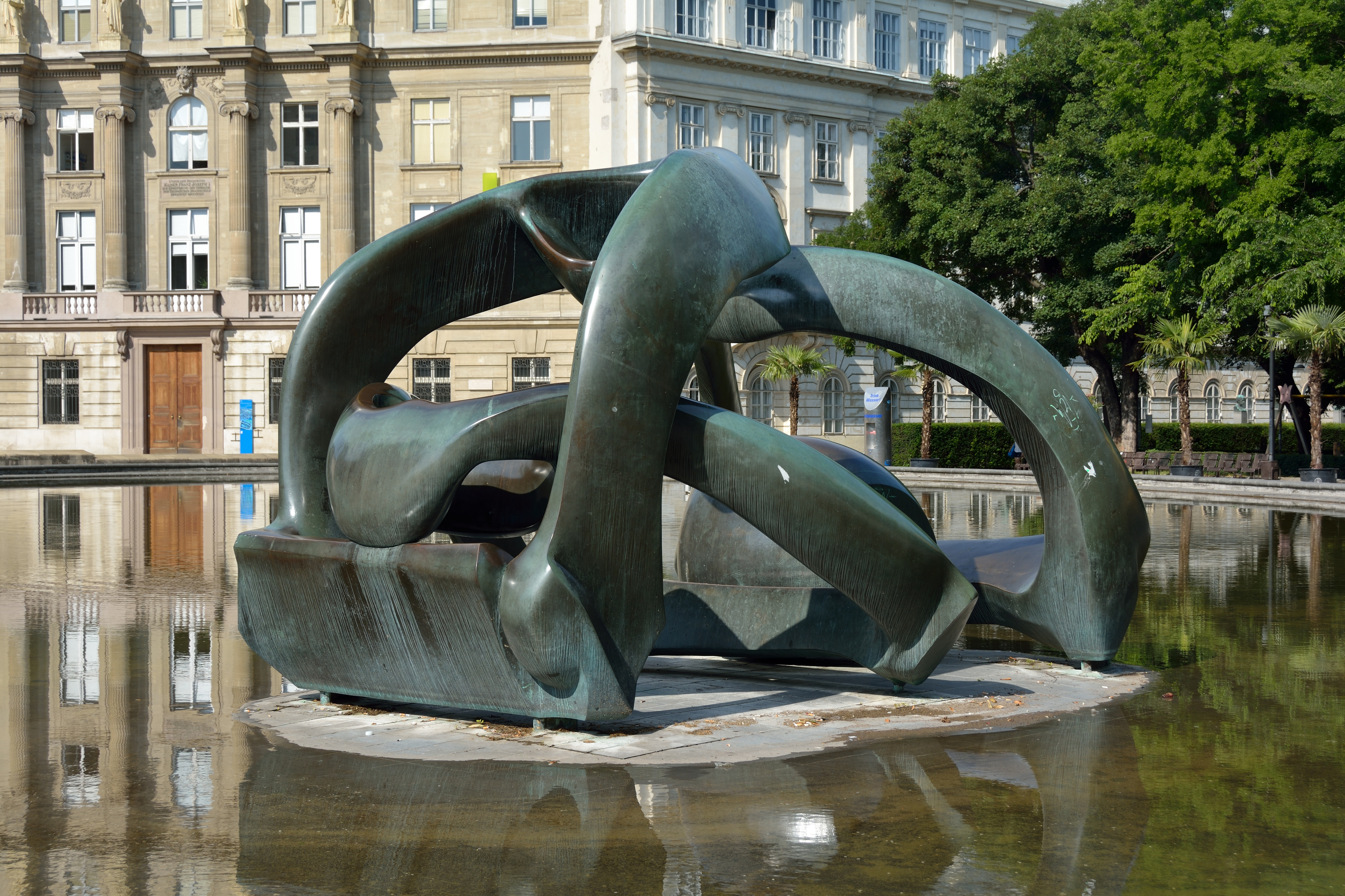 Bronze sculpture Hill Arches by Henry Moore, in the background the main building of Vienna University of Technology, Karlsplatz, 4th district of Vienna